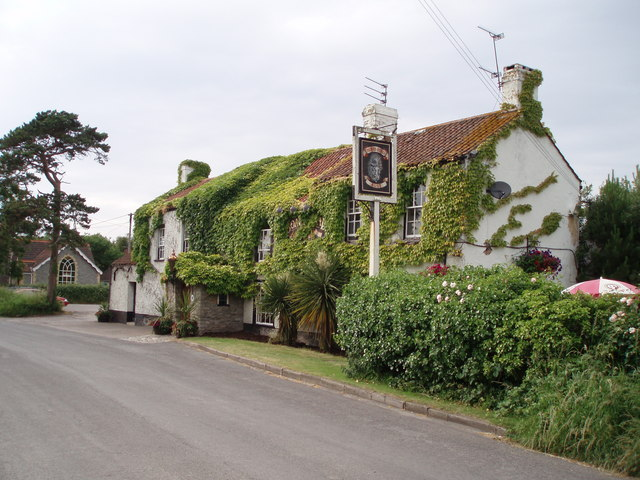 The Boar's Head, Aust. This public house dates back to the 16th century, and the inside is very traditional. A nice beer garden too.